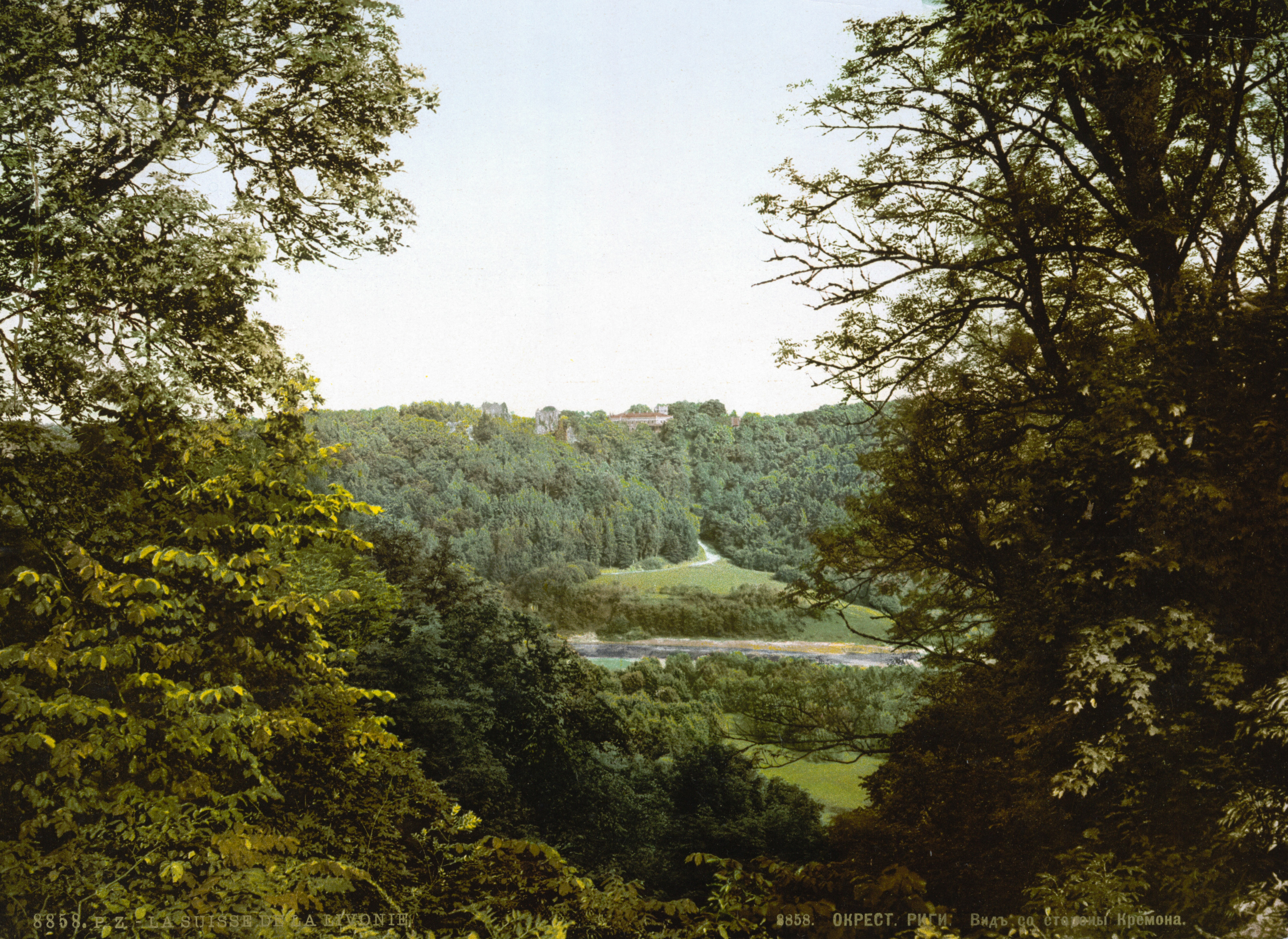 La Suisse de Livonie from Cremon, (i.e., Crimea?), Riga, Russia, (i.e., Latvia) Comment: It is not Riga - Kremon is former name for Krimulda, a town about 50 km from Riga (in district of Riga) Print no. "8858"